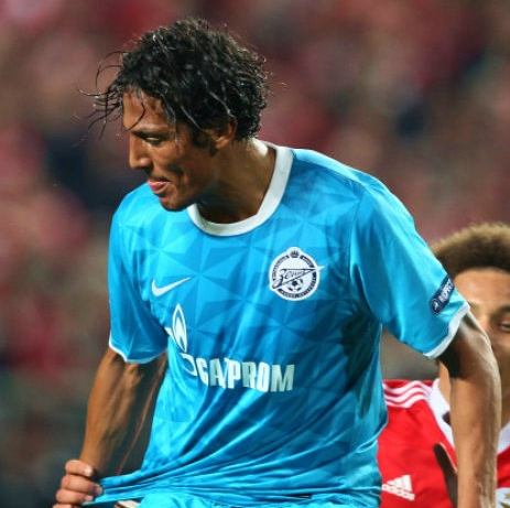 Bruno Alves